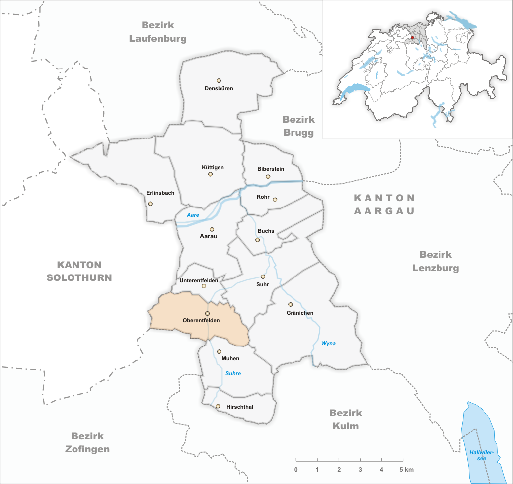 Municipality Oberentfelden